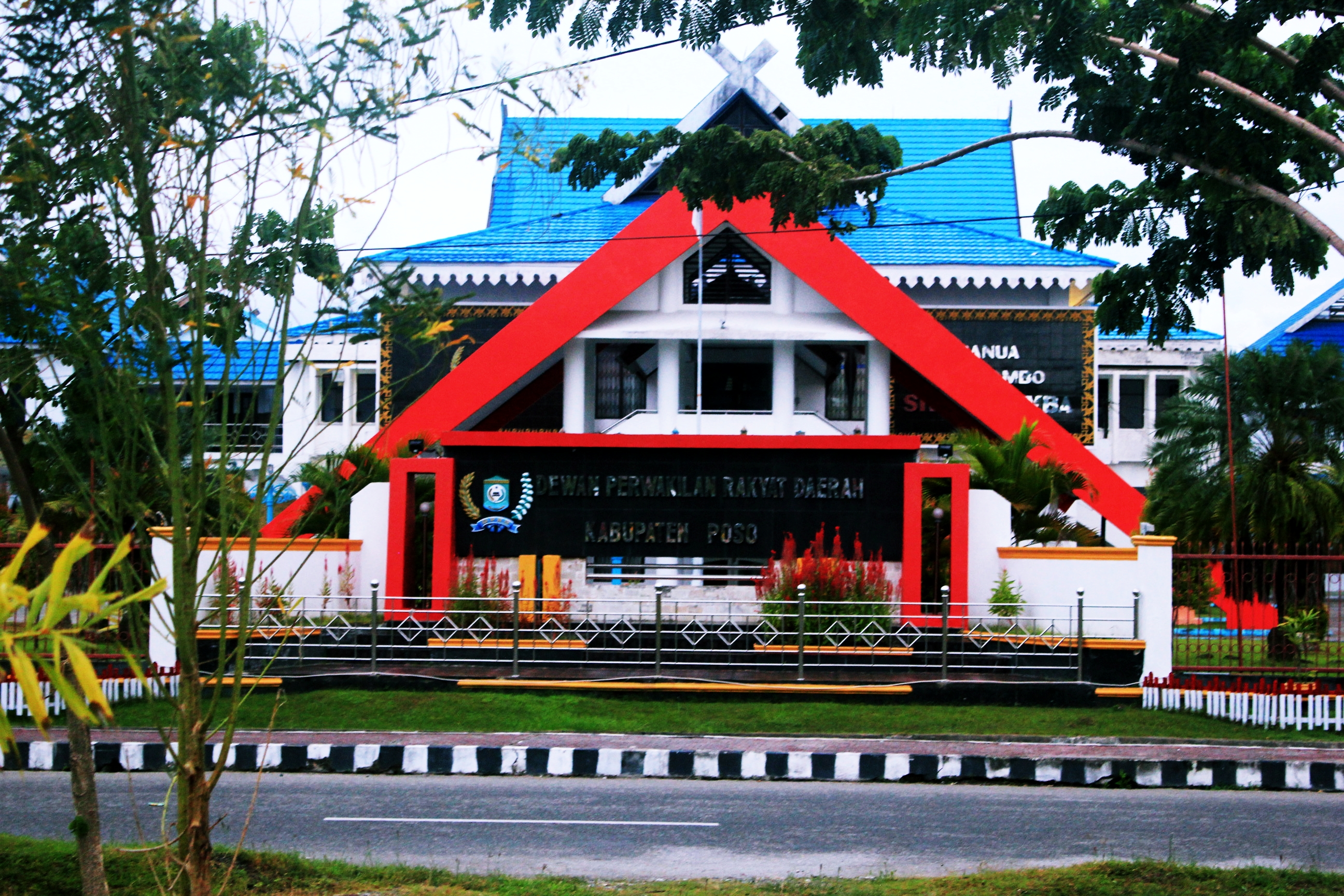 The front side of Regional People's Representative Council Office, Poso Regency, located in Poso Kota Subdistrict, Poso Regency, Central Sulawesi Province, Indonesia